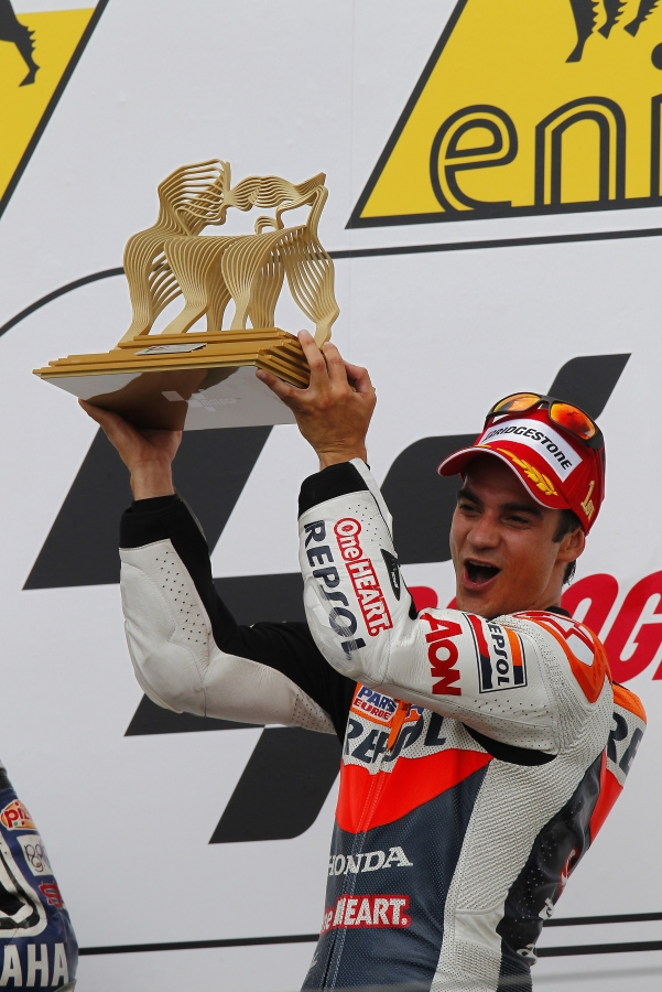 Dani Pedrosa, lifting his trophy and celebrating on the podium after winning the 2012 German Grand Prix.